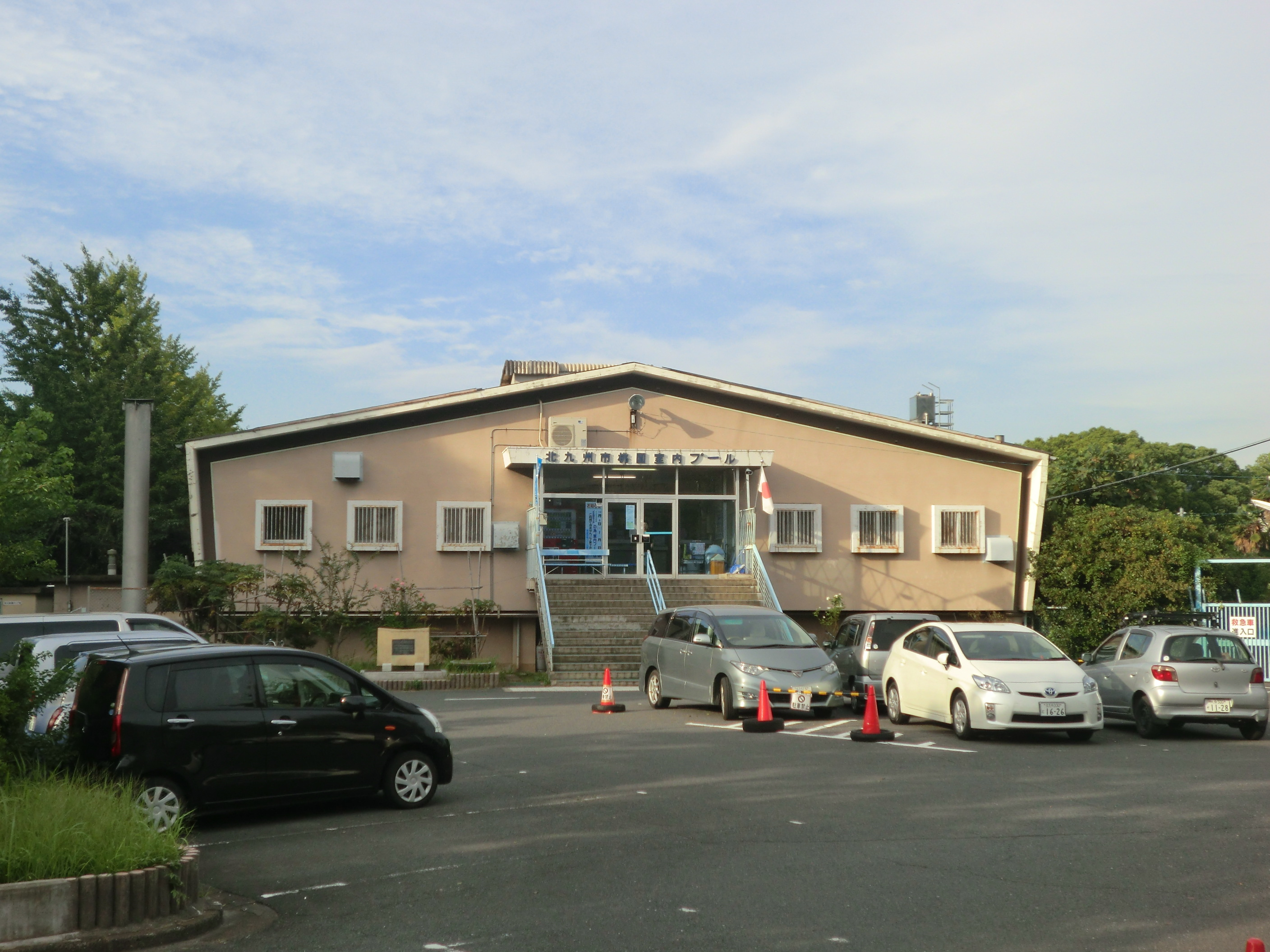 Momozono citizen pool at Yahata-higashi ward in Kitakyushu,Fukuoka,Japan.